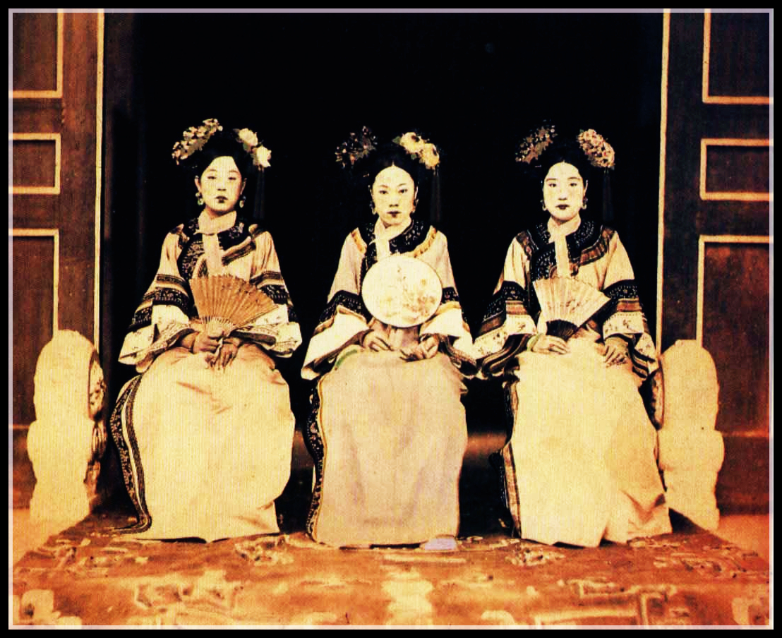 Wives of Prince Chun